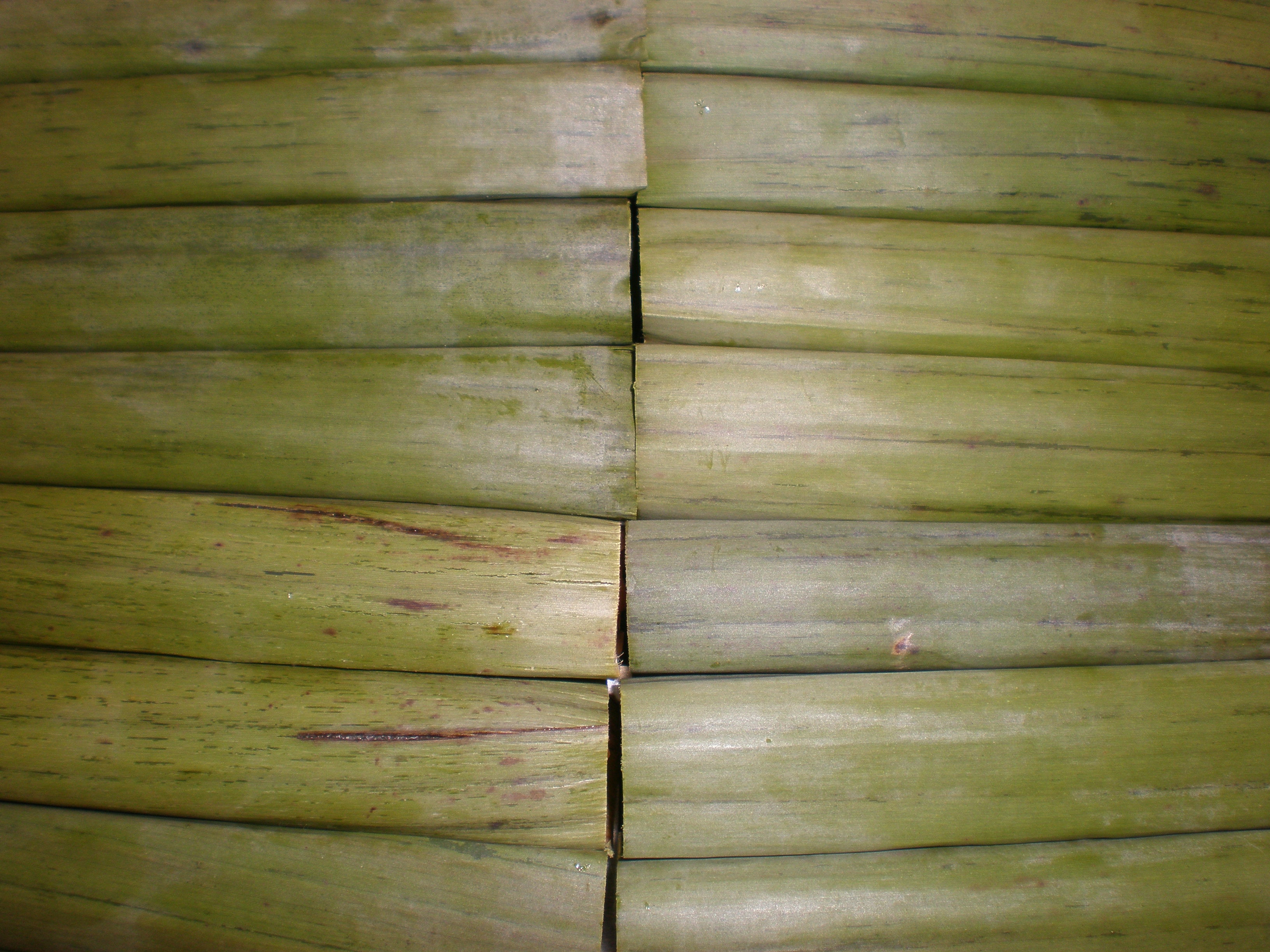 Rolls of espasol wrapped in banana leaves